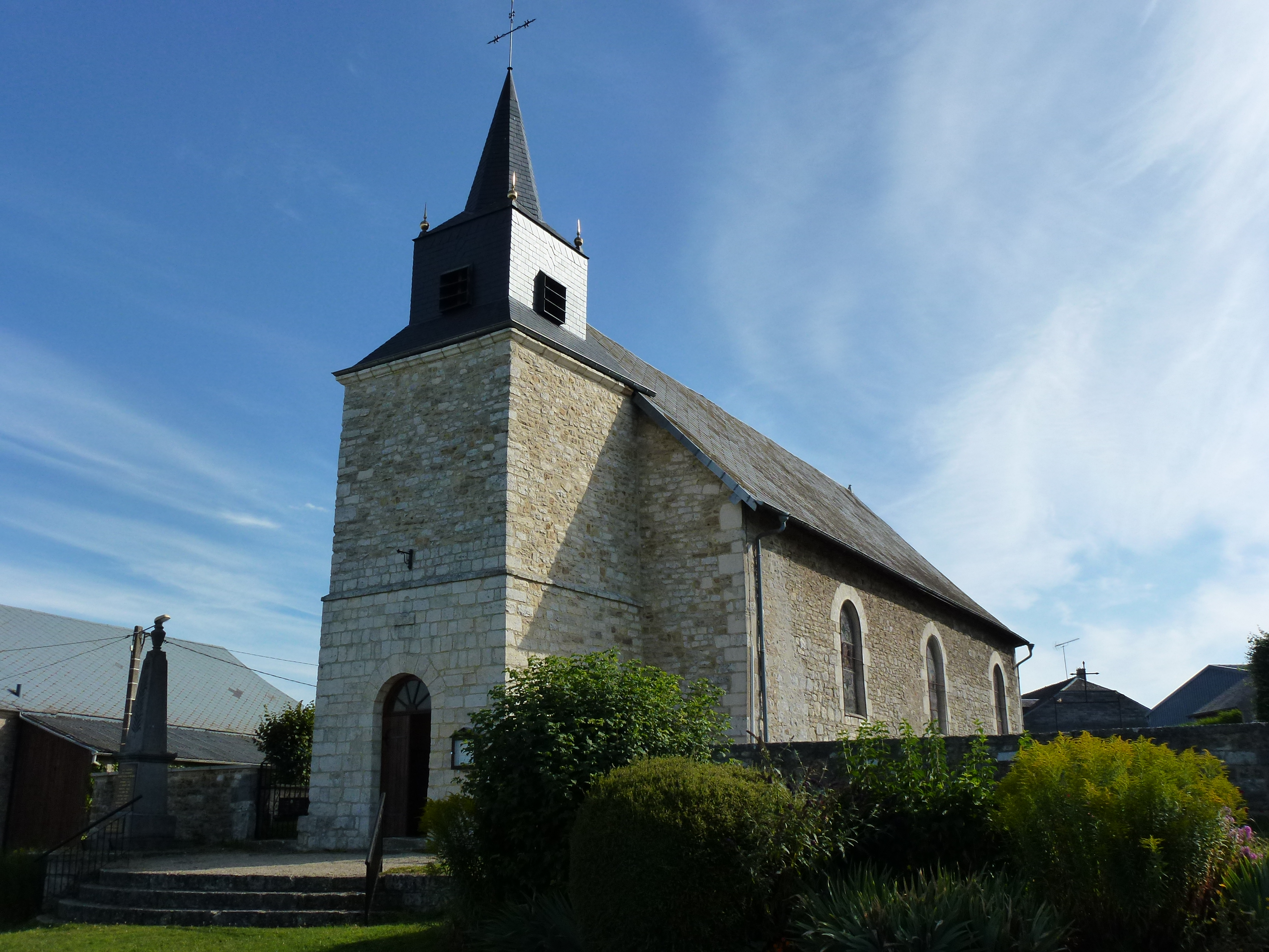 Champlin (Ardennes) église, façade